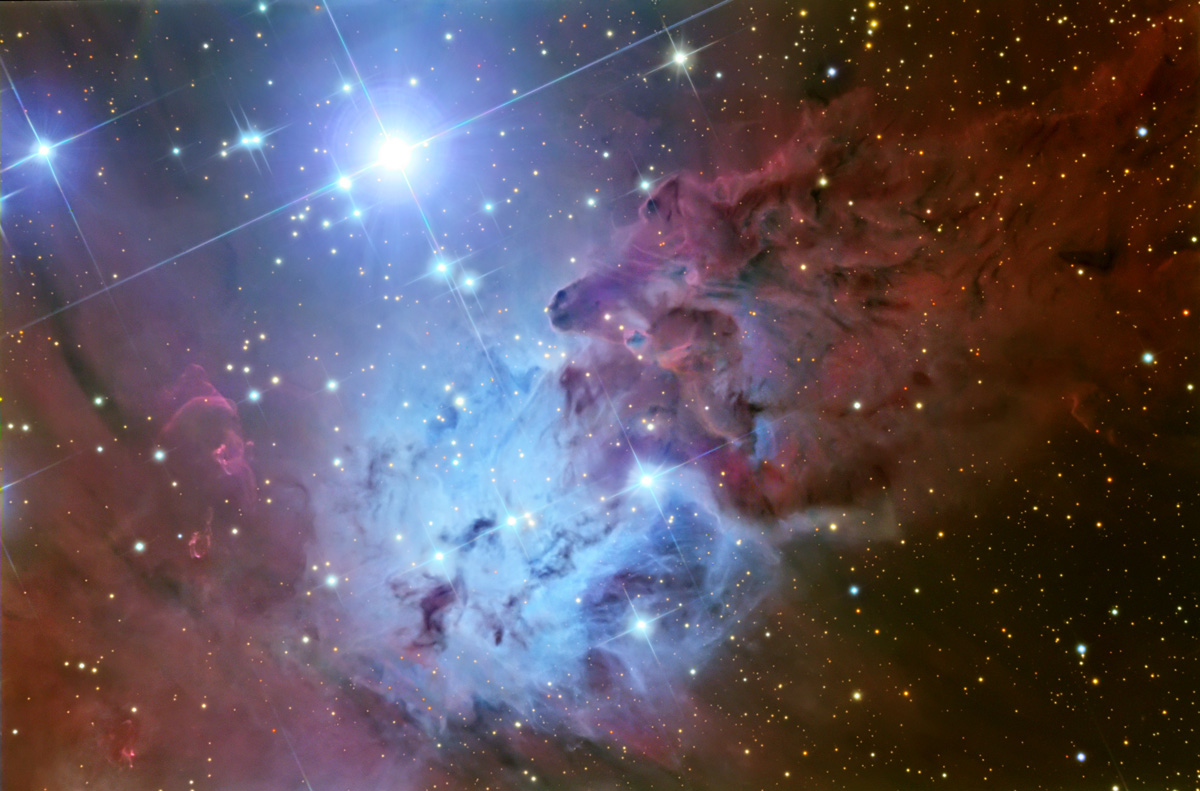 Deep exposures of Nebulae using the 0.8m Schulman Telescope at the Mount Lemmon SkyCenter Credit Line & Copyright Adam Block/Mount Lemmon SkyCenter/University of Arizona